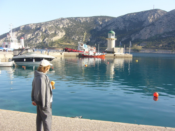 Lighthouse in Antikira, Boeotia, Greece